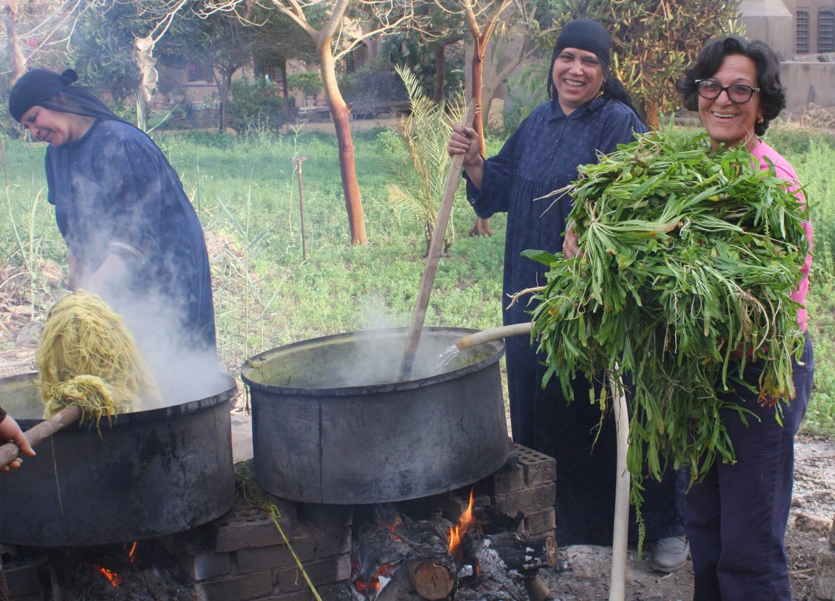 Dying wool yellow with reseda at the Ramses Wissa Wassef Art Centre in February 2016.